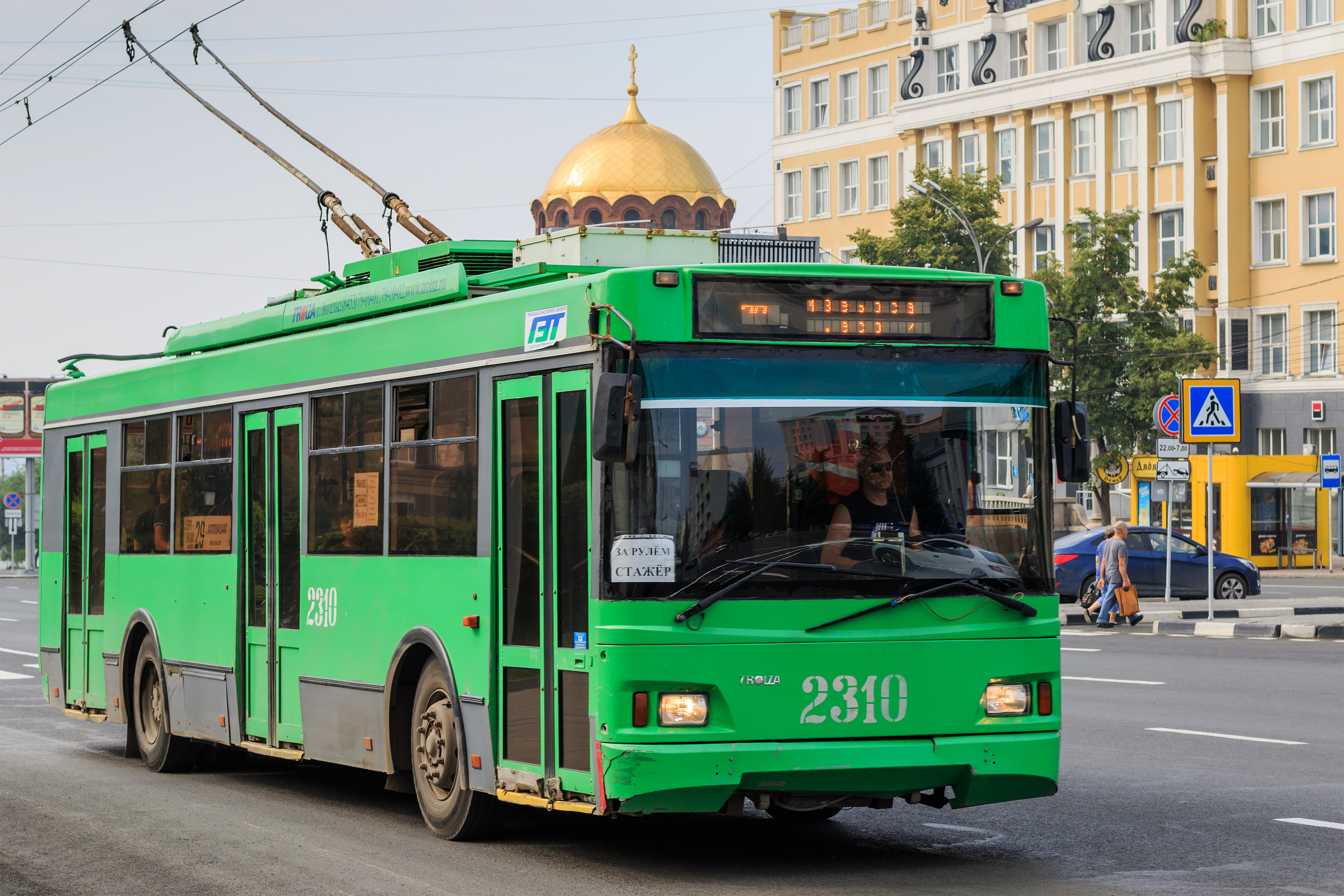 Trolza-5275.06 trolley at Krasny Prospekt in Novosibirsk, Russia